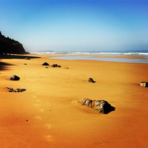 one of my favorite pieces of Europe (nobody here today)